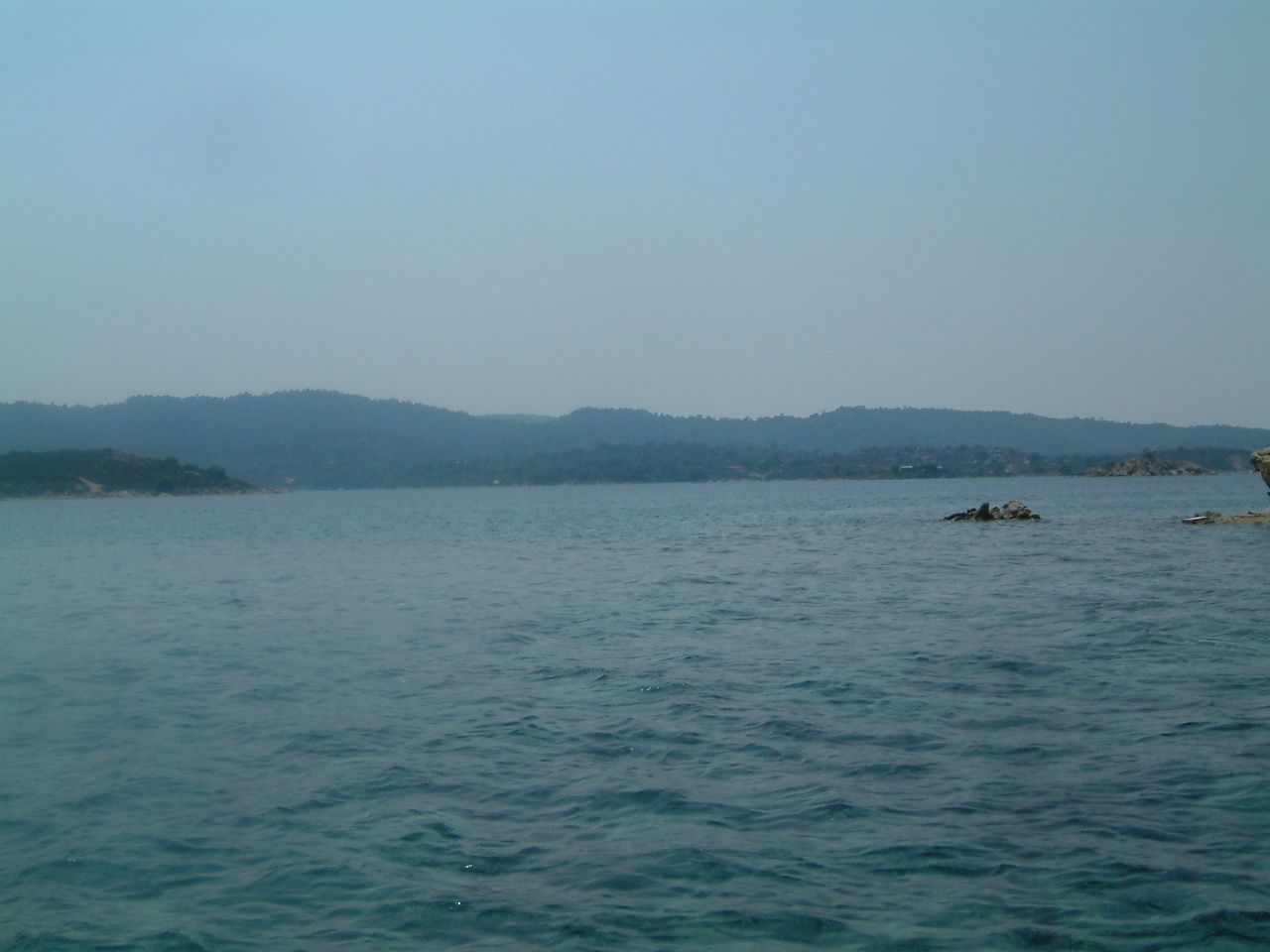 Kalomonisia Islands, Vourvourou, Agios Nikolaos, Chalkidiki, Greece.